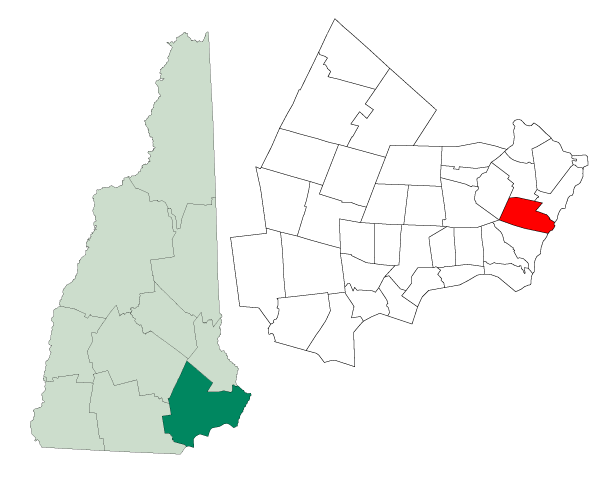 Map of a municipality in Rockingham County, New Hampshire